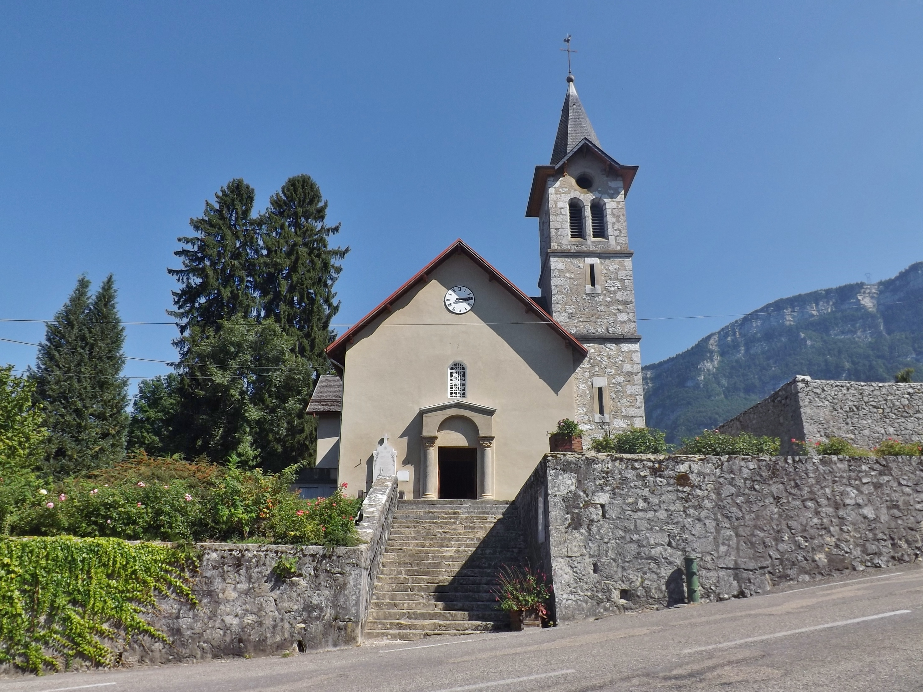 Sight of the church of Lépin-le-Lac village, near Chambéry in Savoie, France.